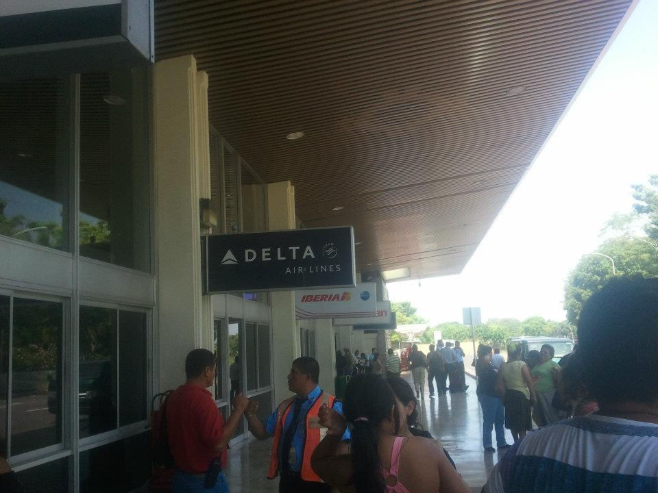 Airport of El Salvador Departure outside